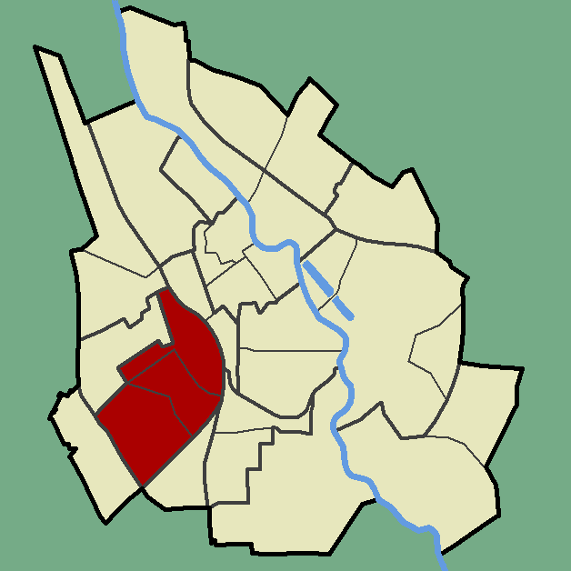 Locator map of Tammelinn, Tartu, Estonia.